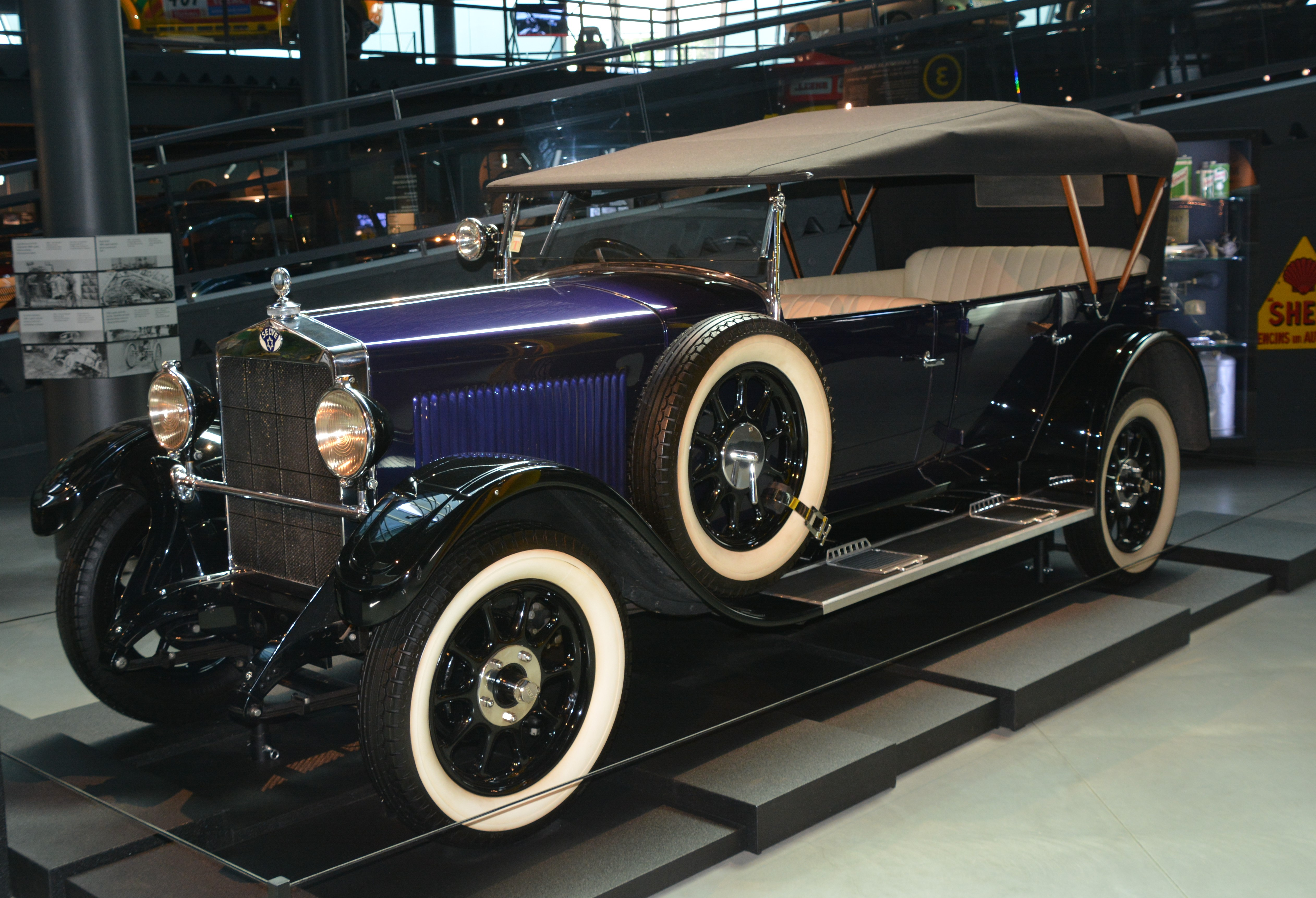 Selve 12/50 from 1928 in Riga Motor Museum